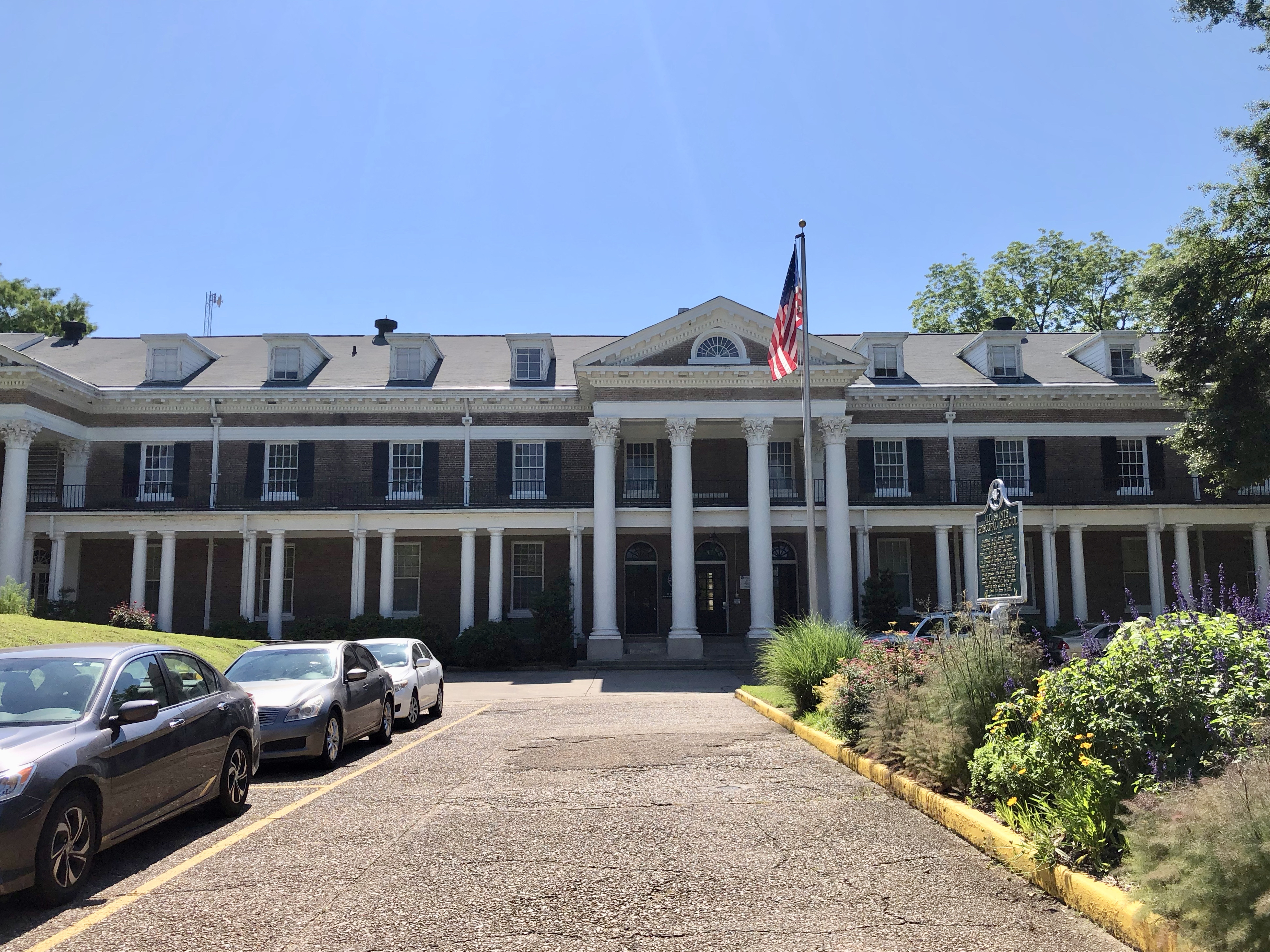 Former All Saints Episcopal College and School in Vicksburg. Now AmeriCorps offices.